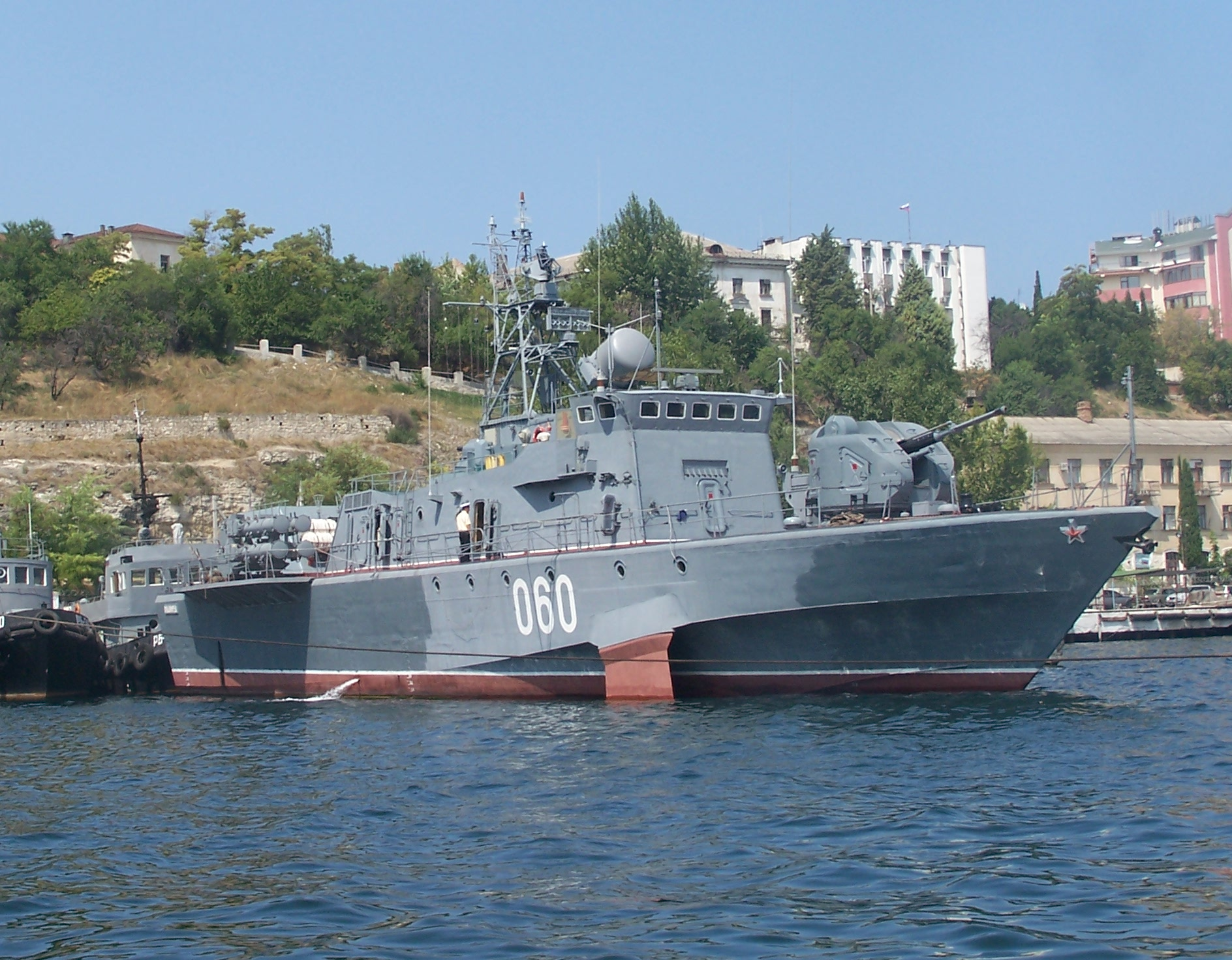 Project 11451 small anti-submarine ship MPK-220 "Vladimirets" in Southern bay of Sevastopol.